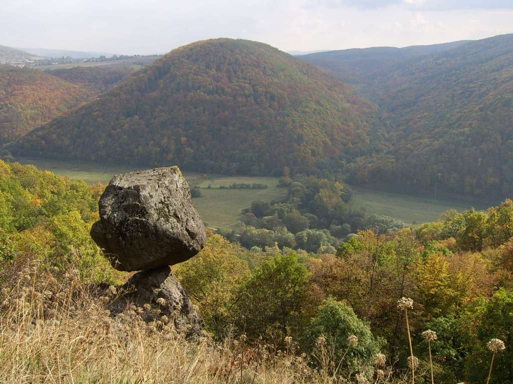 The view on the Štiavnica Mountains (Štiavnické vrchy). National Nature Reserve (Národná prírodná rezervácia; NPR) Boky; Slovakia